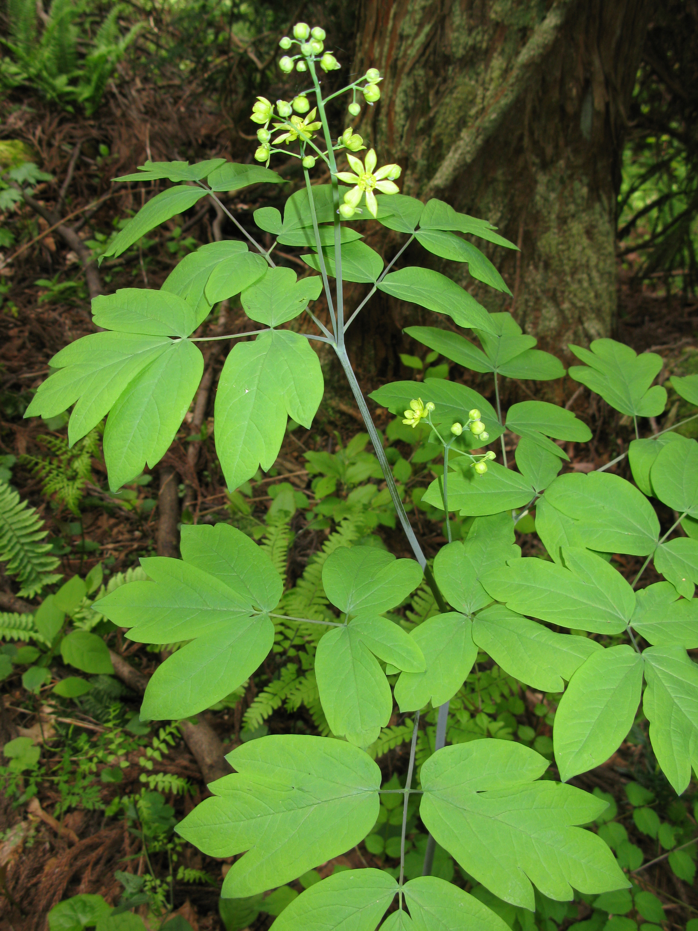 Caulophyllum robustum, Aizu area, Fukushima pref., Japan